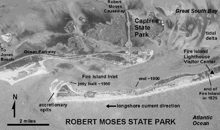 Fire Island inlet Map. Aerial photograph map of Robert Moses State Park. Note the location of the end of Fire Island in 1825 when the lighthouse was built.